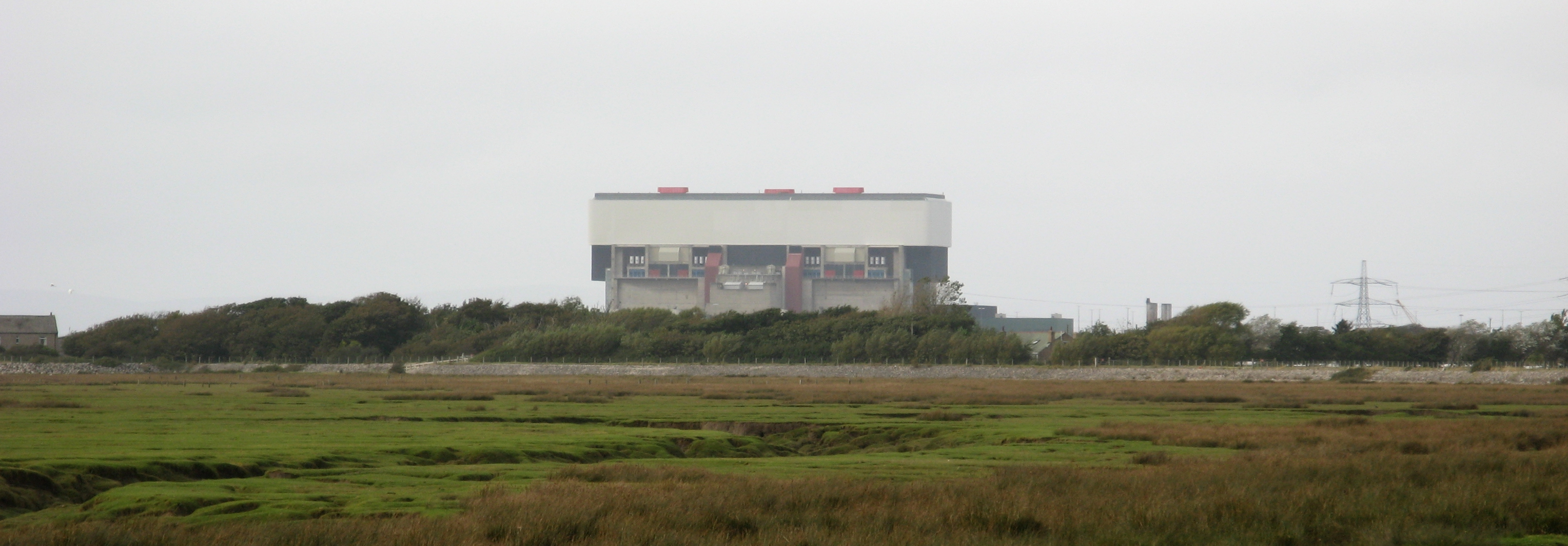 Heysham Power Station stage 2 Advanced gas-cooled reactor (AGR), from near Sunderland Point.